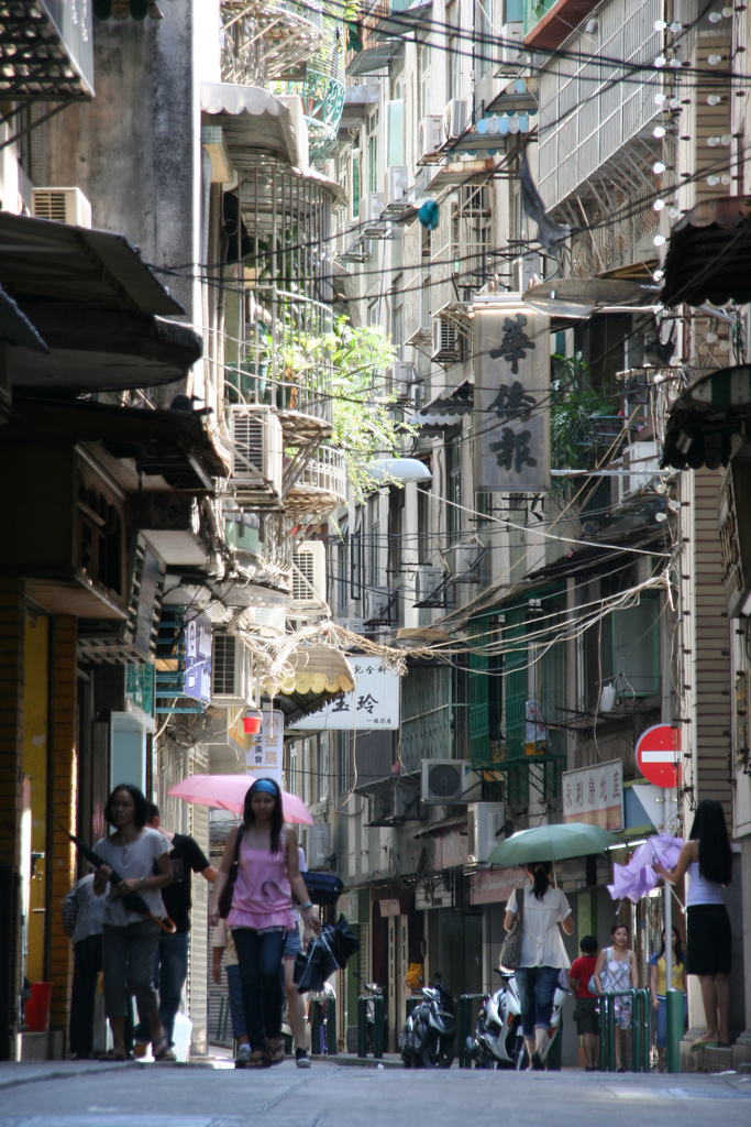 The scene of Rua da Alfândega in Macau